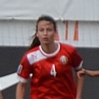 2015 FIFA Women's World Cup qualification – UEFA Group 6 match Turkey vs Belarus on September 17, 2014